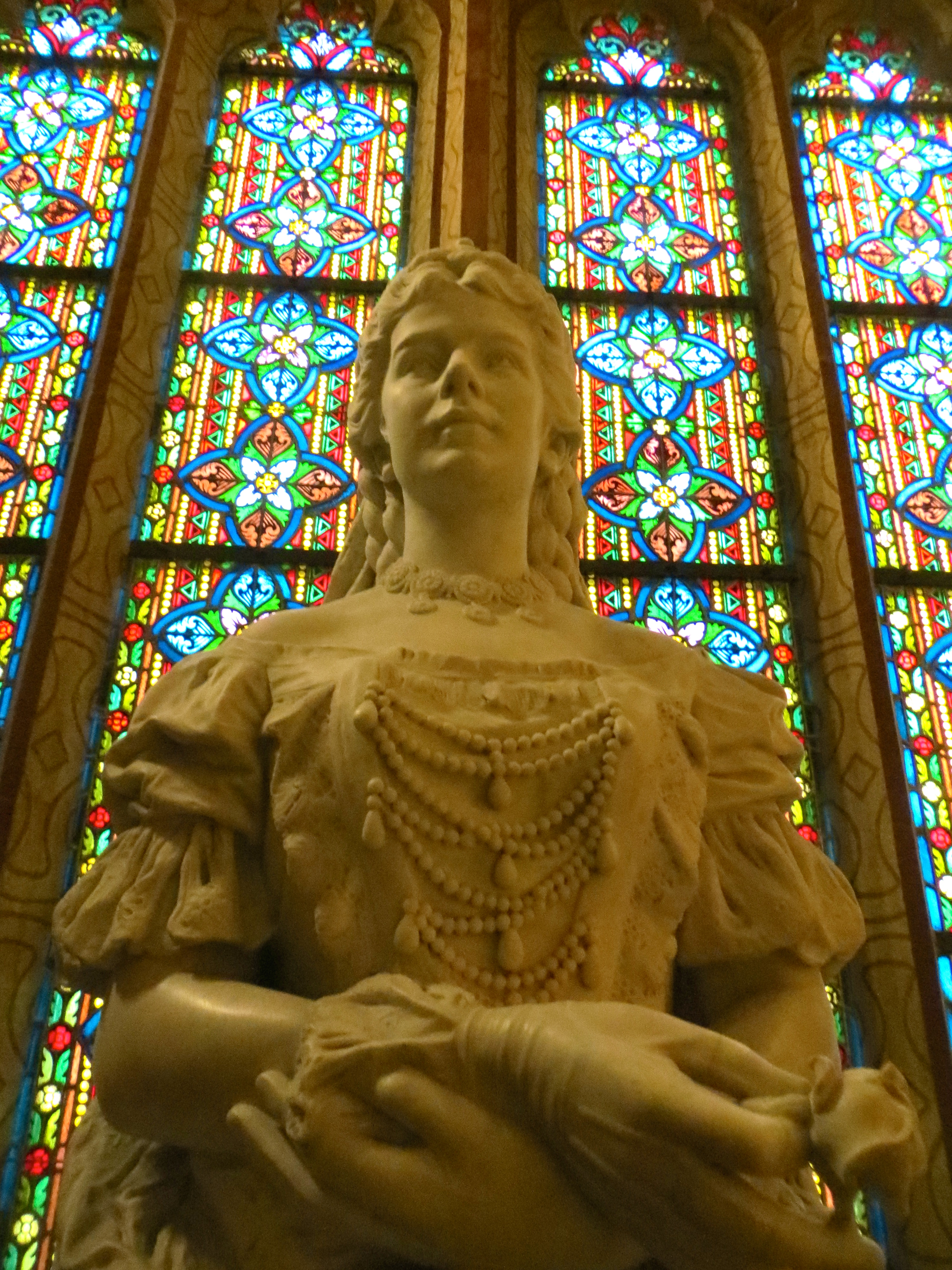 Queen Elizabeth of Hungary, 1837-1898, Sculpture located in St Matthias Church in Budapest, Hungary.